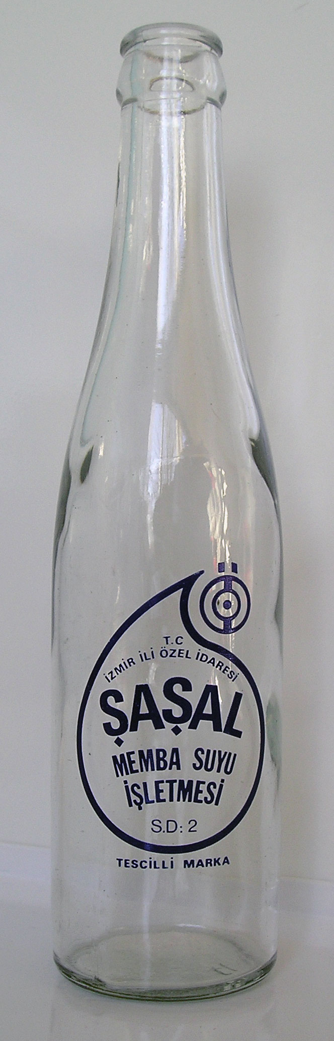 Şaşal memba suyu İşletmesi - Spring water - İzmir, Turkey